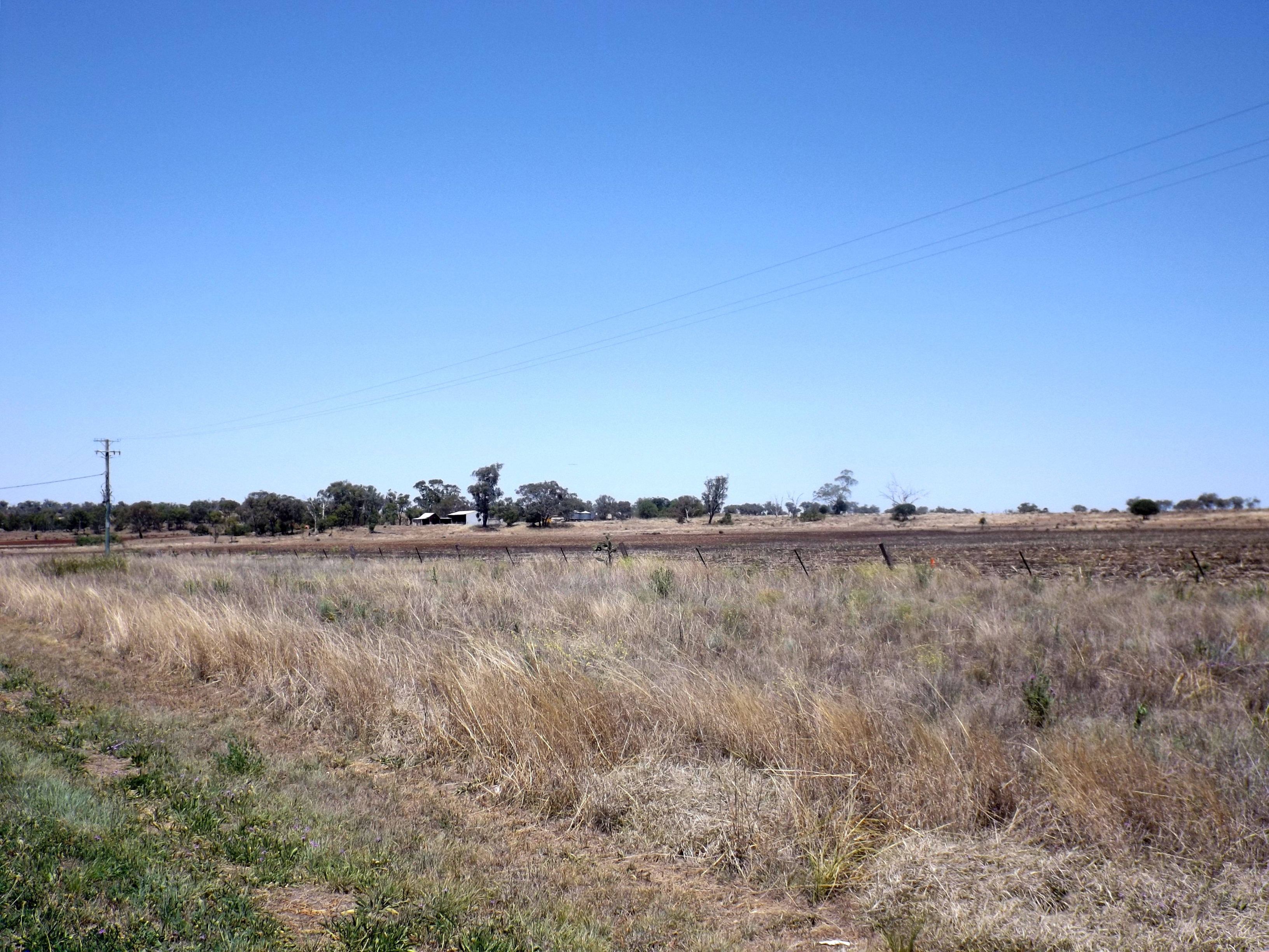 Photo of fields at Aubigny, Queensland, Australia.